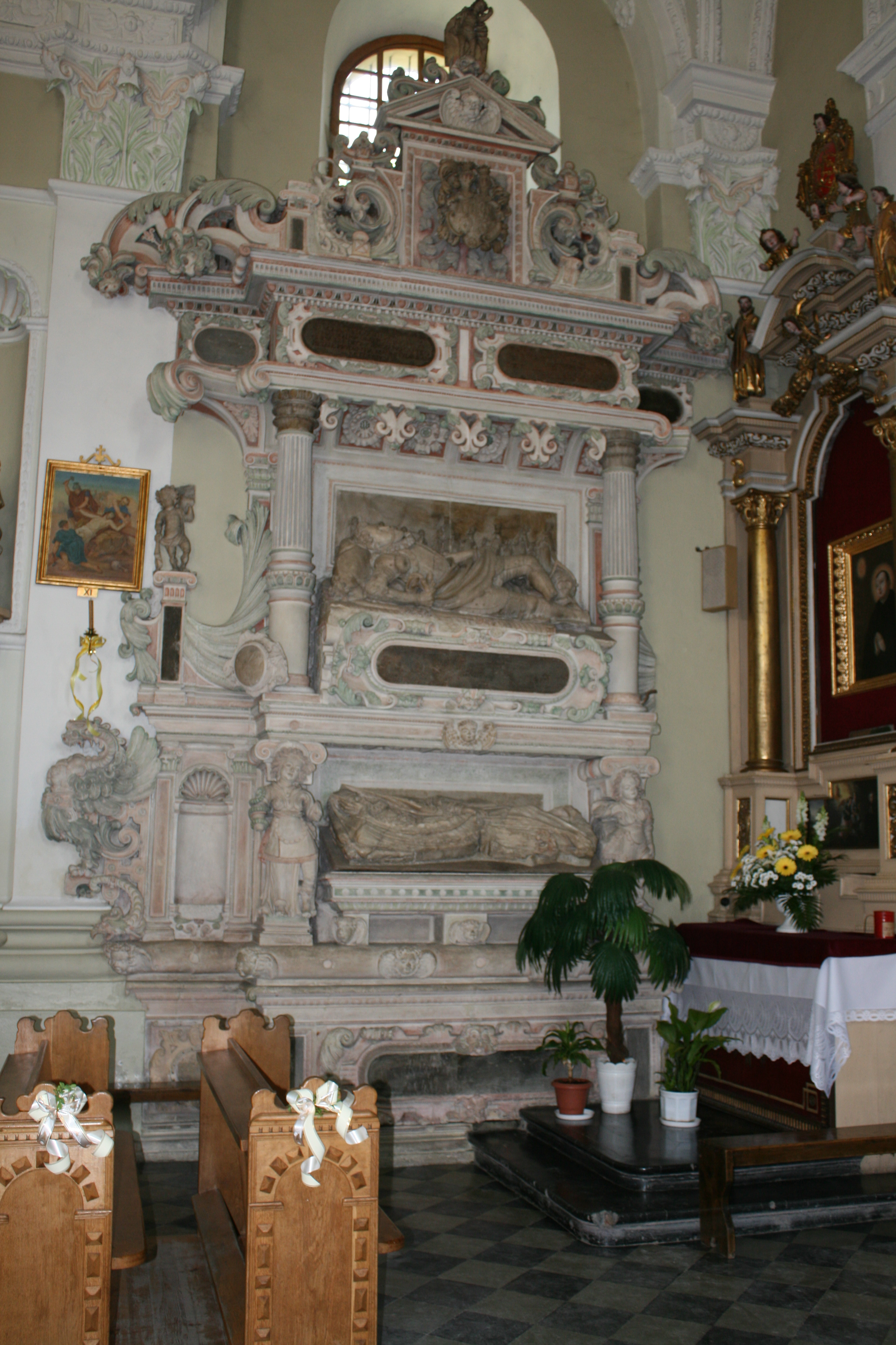 Tombs of Paweł and Anna Uchańscy in the church in Uchanie (Santi Gucci, c. 1607).